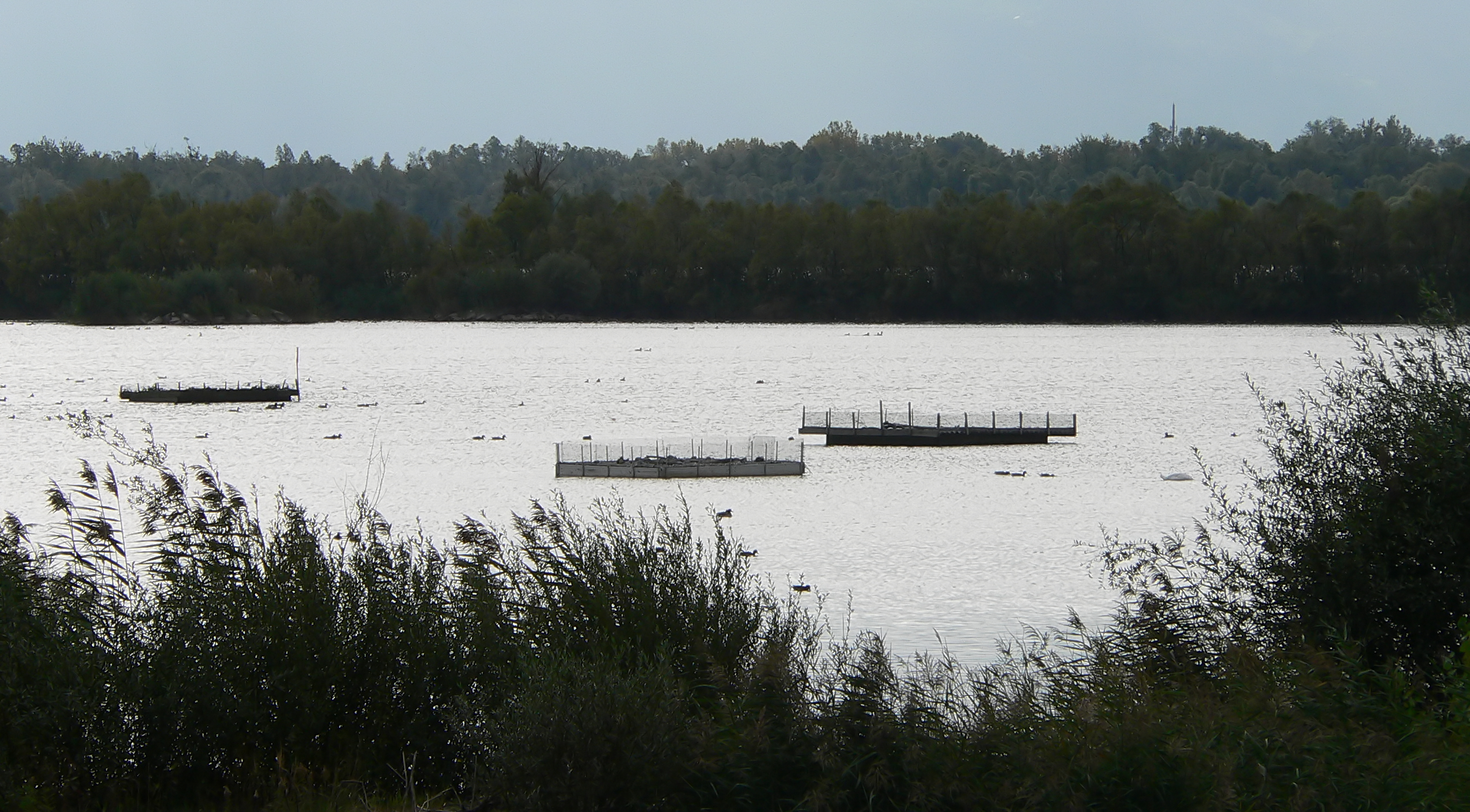 Breeding platforms near the Rhine estuary (Lake Constance)